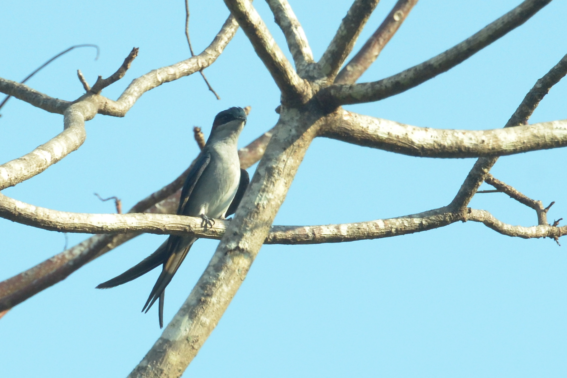 Grey-rumped treeswift (Hemiprocne longipennis) at Manado, North Sulawesi.